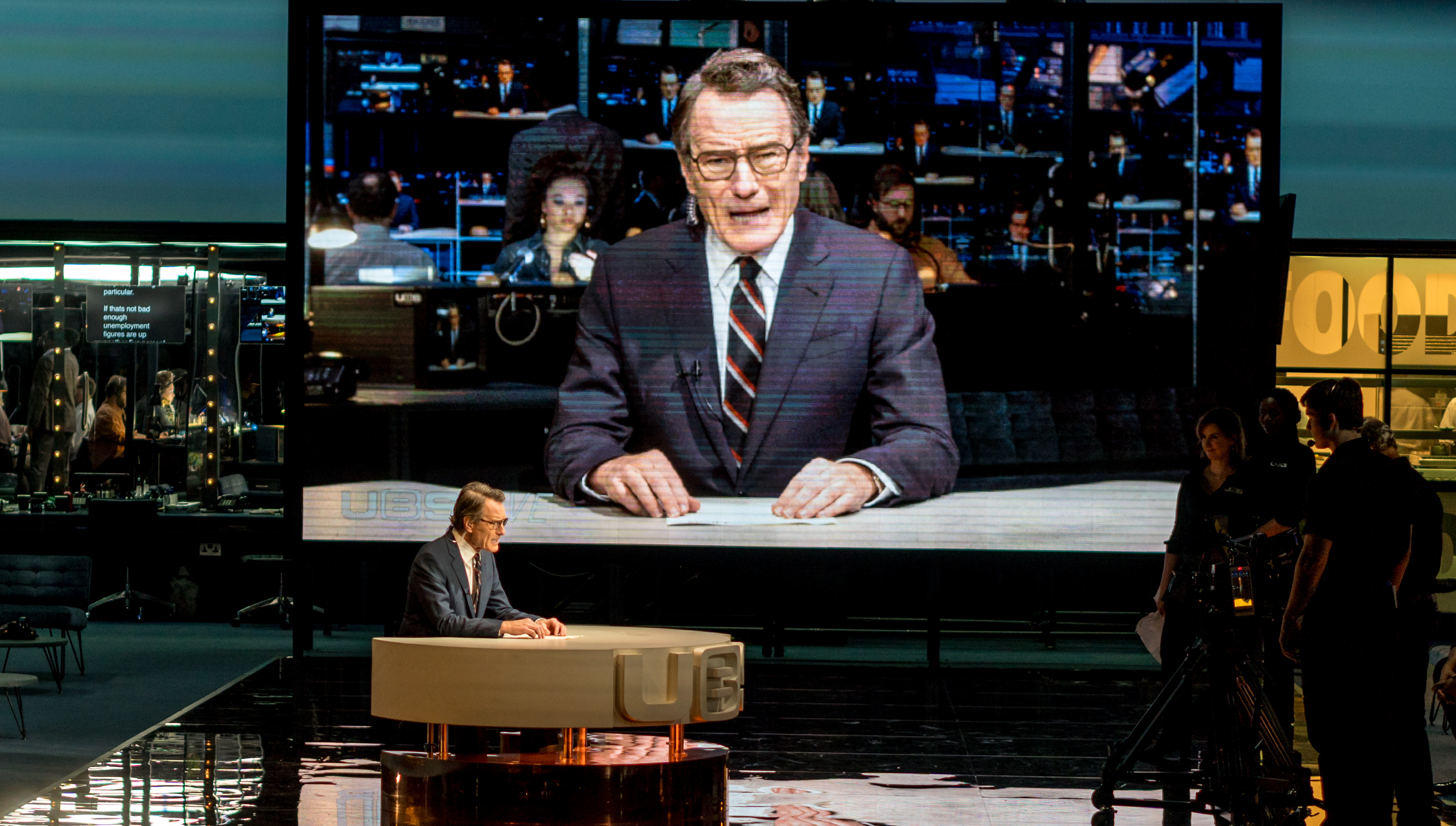 NetworkNT191217-2